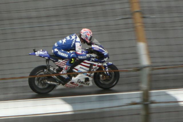 Colin Edwards at the Red Bull Indianapolis GP